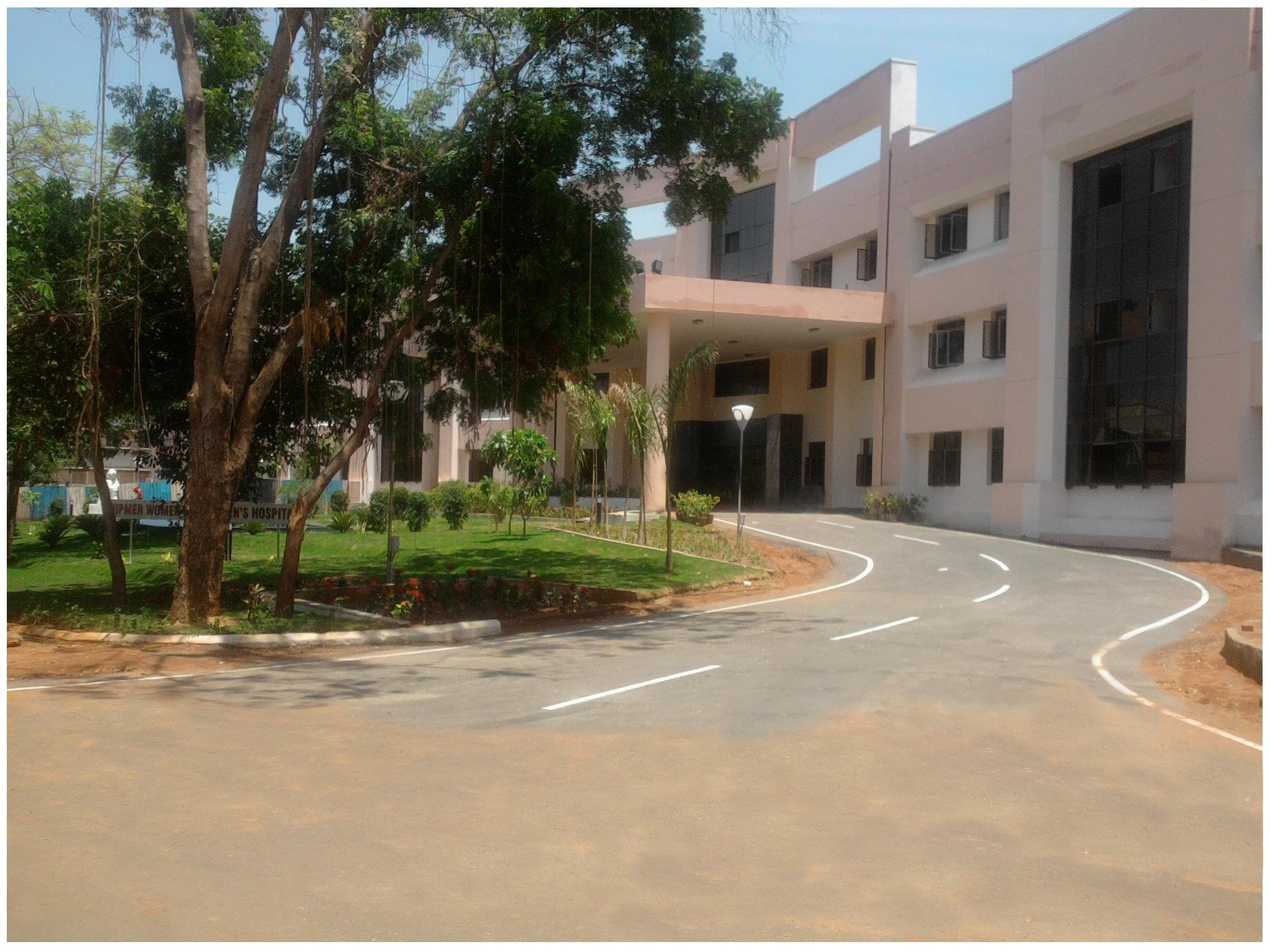 INSTITUTE OF MATERNAL AND CHILD HEALTH